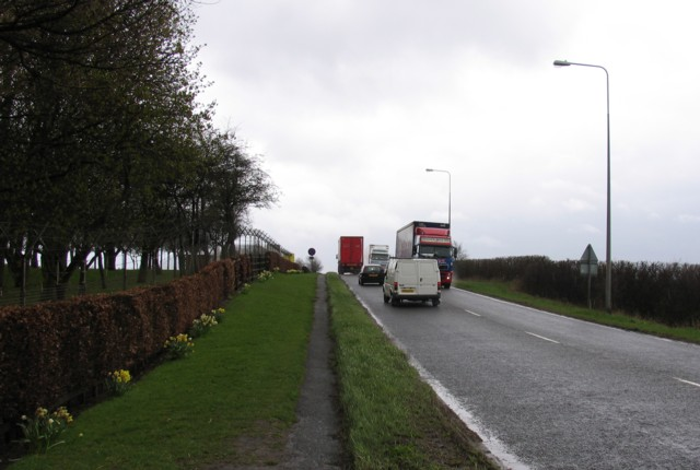 A52 Somerby Hill. The driver of the large red HGV must have been a Geograph enthusiast as he enthusiastically waved his arms around and sounded his horn as he paused behind the photographer's parked car on the hill.